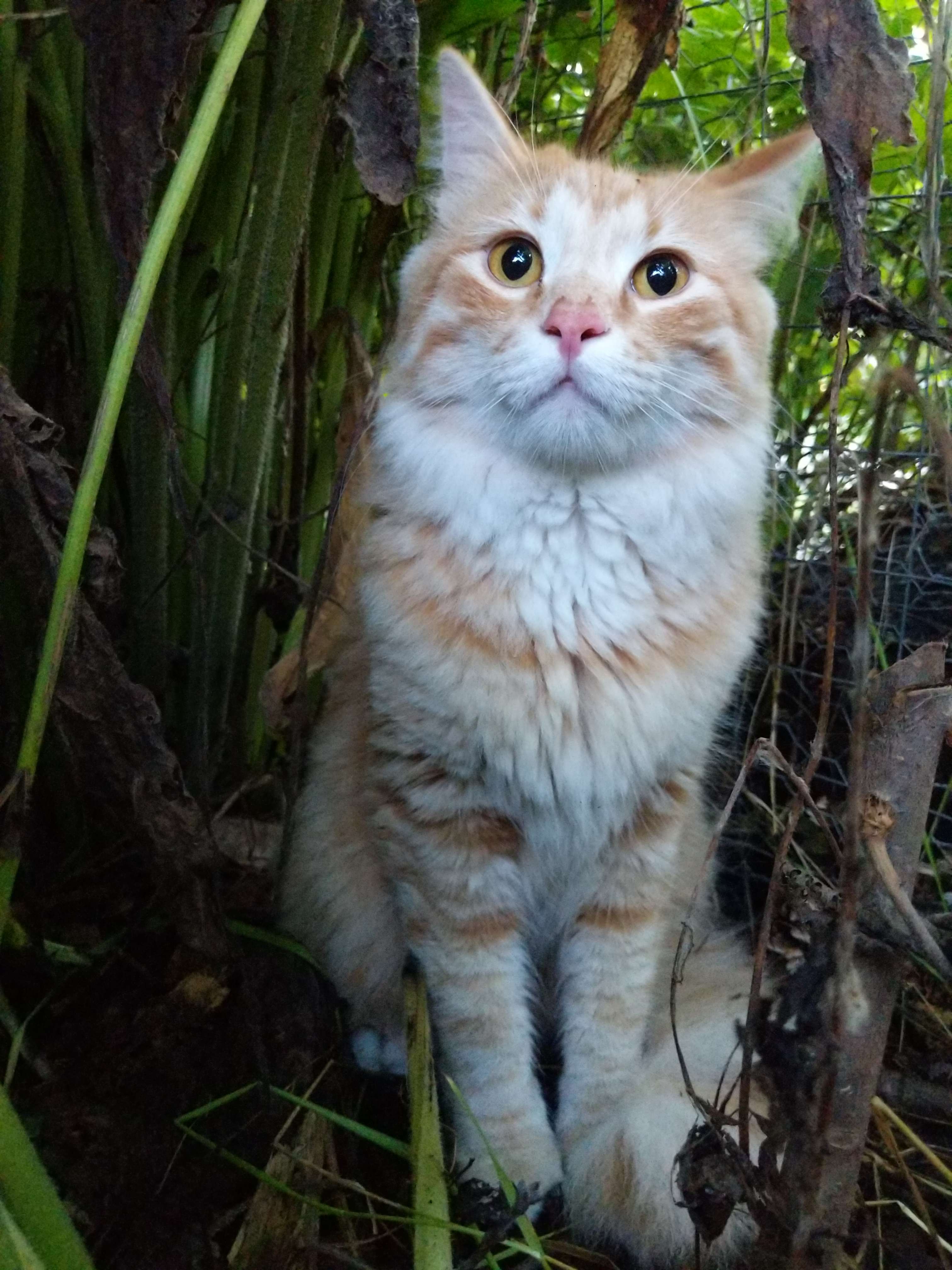 Domestic Cat Demonstrating Dilated Slit Pupils in an outdoor setting.